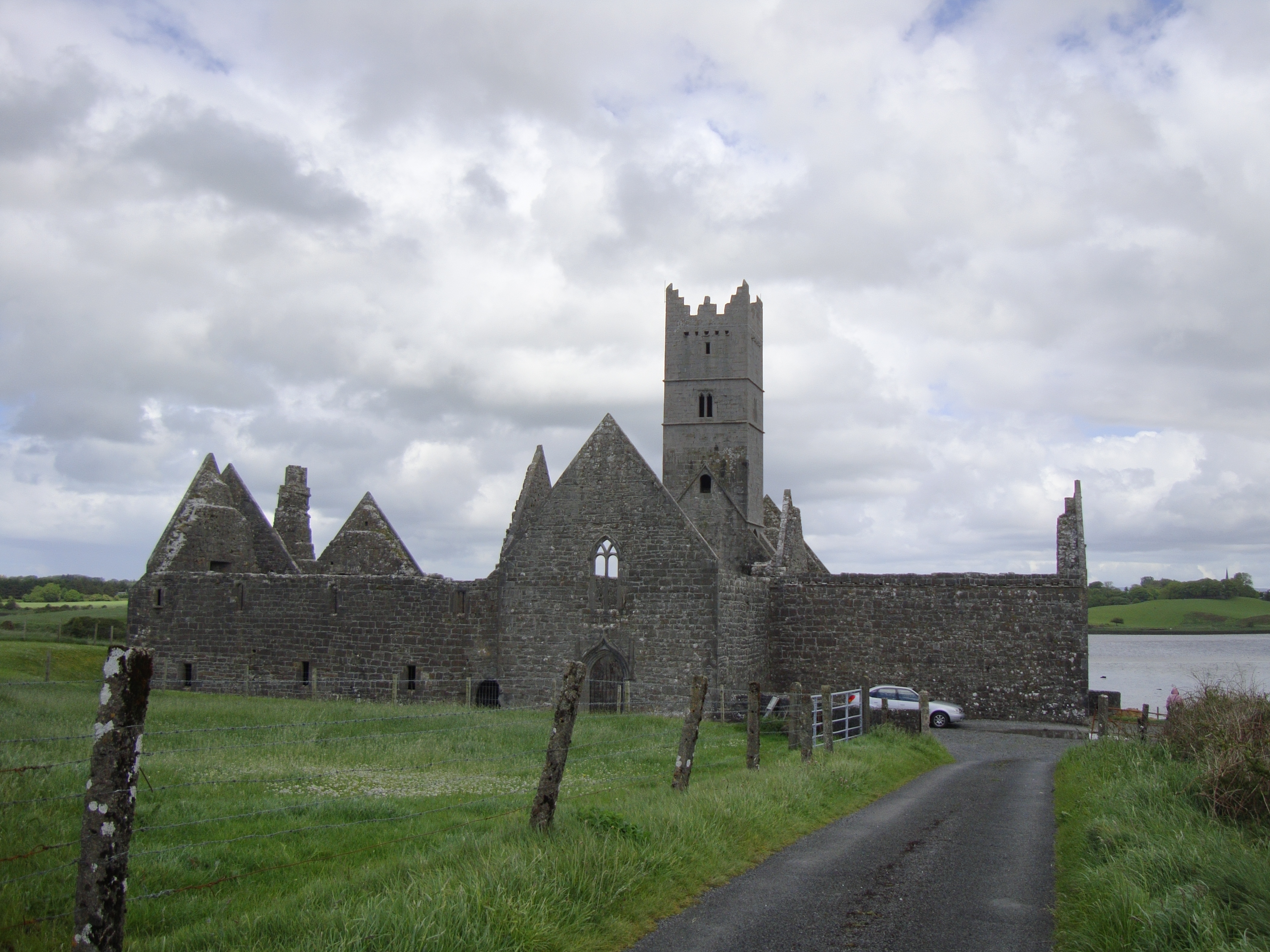 Photograph of the remains of Rosserk Friary, Co. Mayo, Ireland. West side of the friary. Crossing tower rises from the ruins. West doorway is visible.